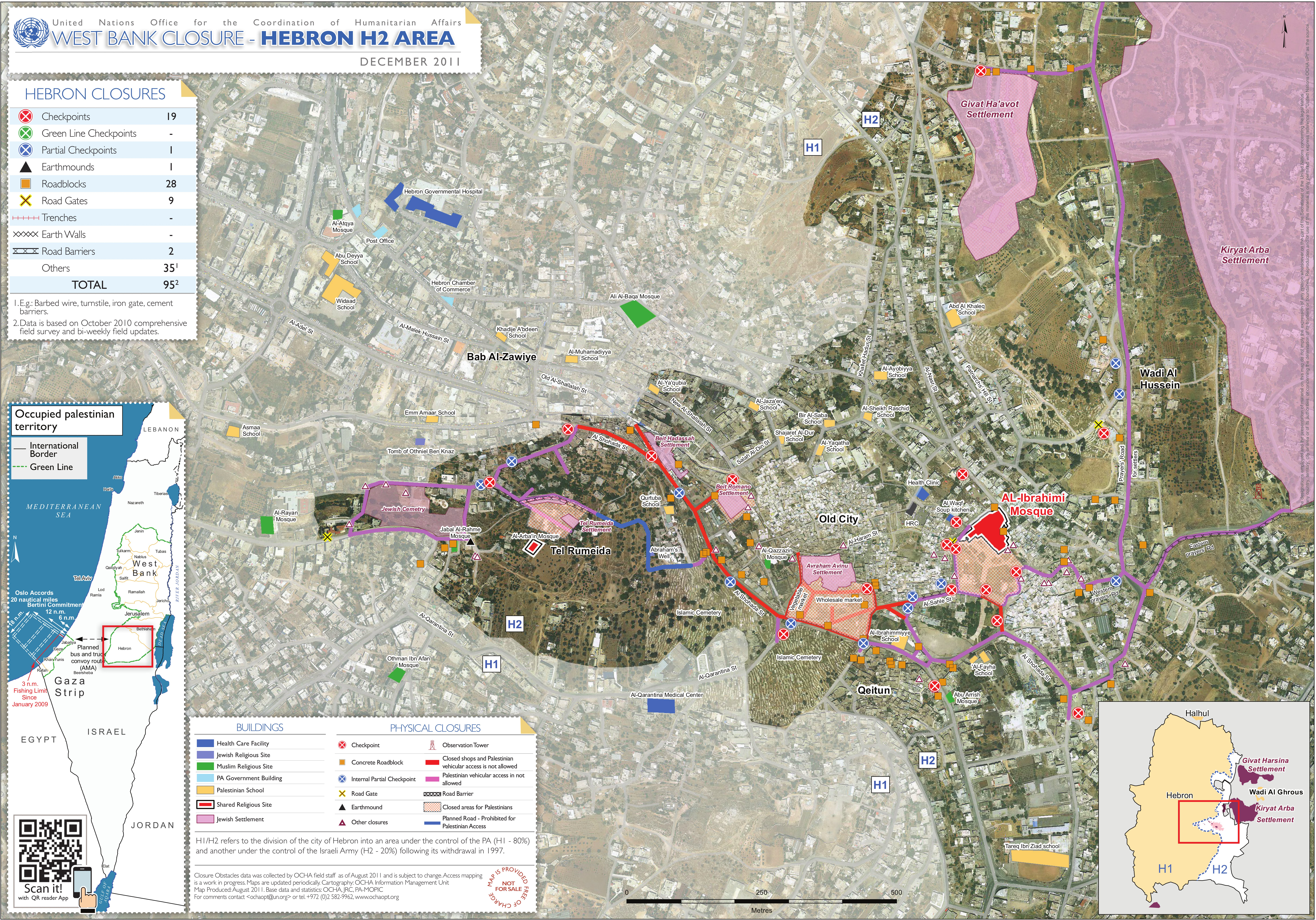 Hebron H2 area closures Humanitarian Atlas, December 2011